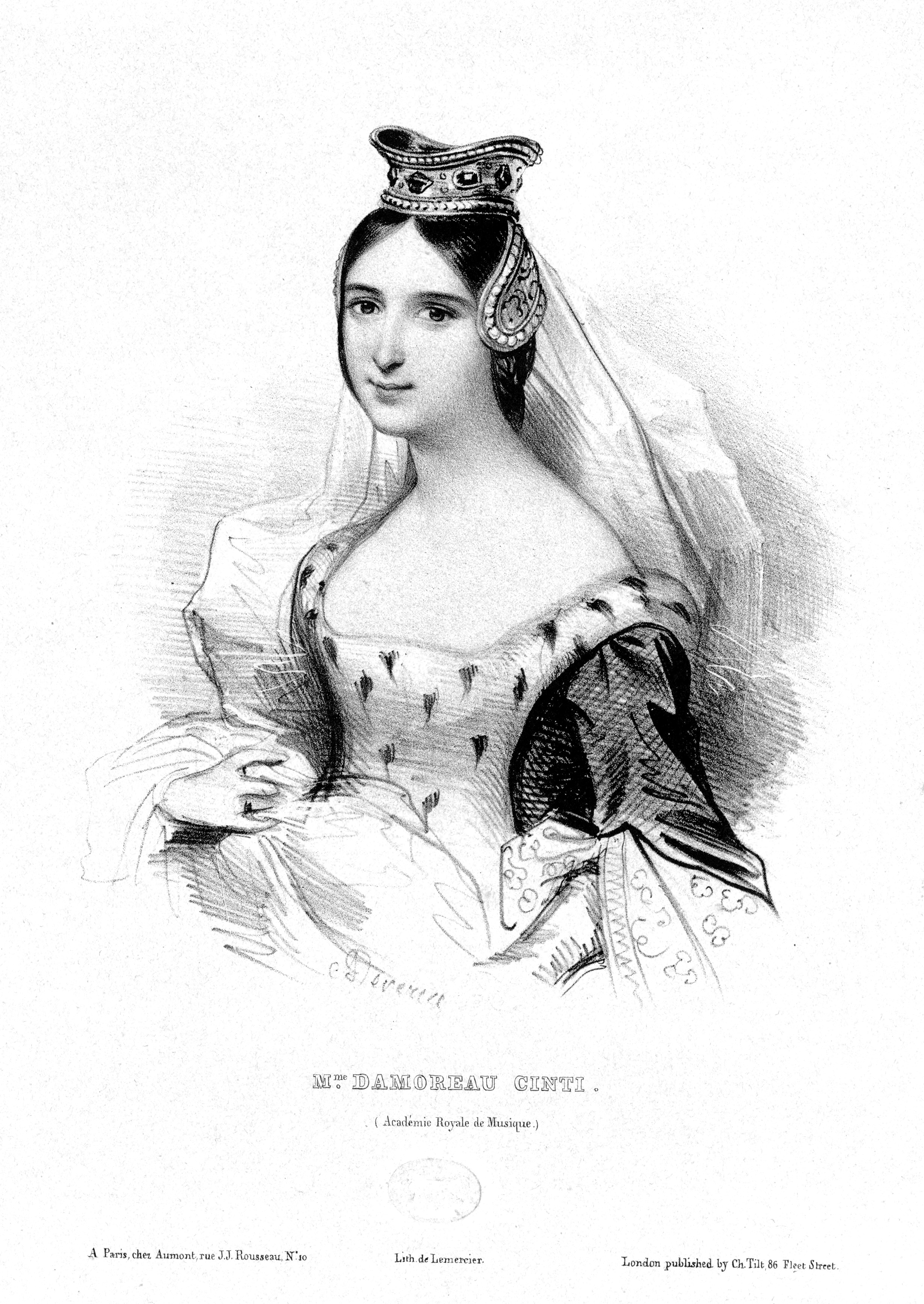 Laure Cinti-Damoreau (1801–1863), French operatic soprano